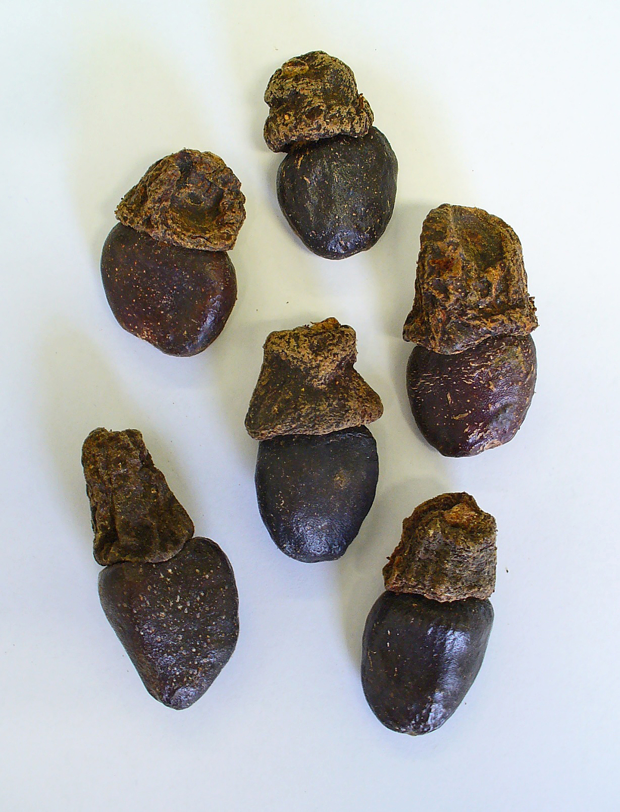 Semecarpus anacardium, Anacardiaceae, Oriental Anacardium, dried fruits. Private collection, therefore not geocoded. The dried fruits are used in homeopathy as remedy: Anacardium / Anacardium orientale(Anac.)